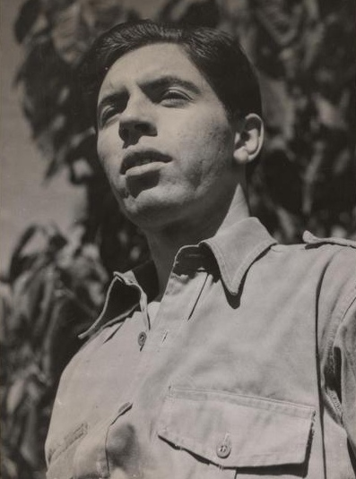 This image shows a photograph of Michael Pate, taken in 1938.